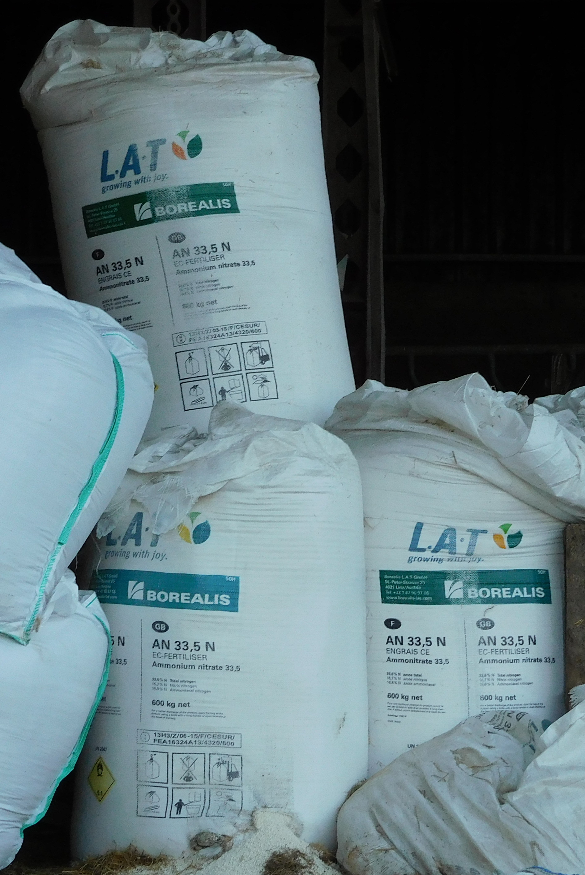 "AN 33,5 N" ammonium nitrate big bags EC-fertilizer produced by Borealis.